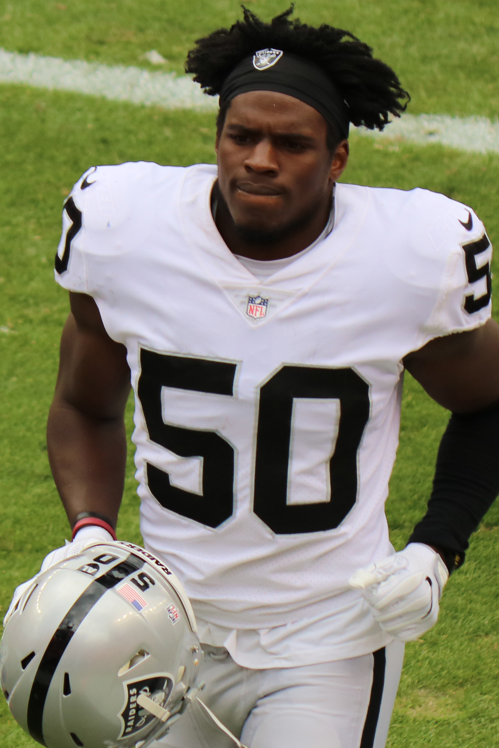 Nicholas Morrow, a player on the National Football League.